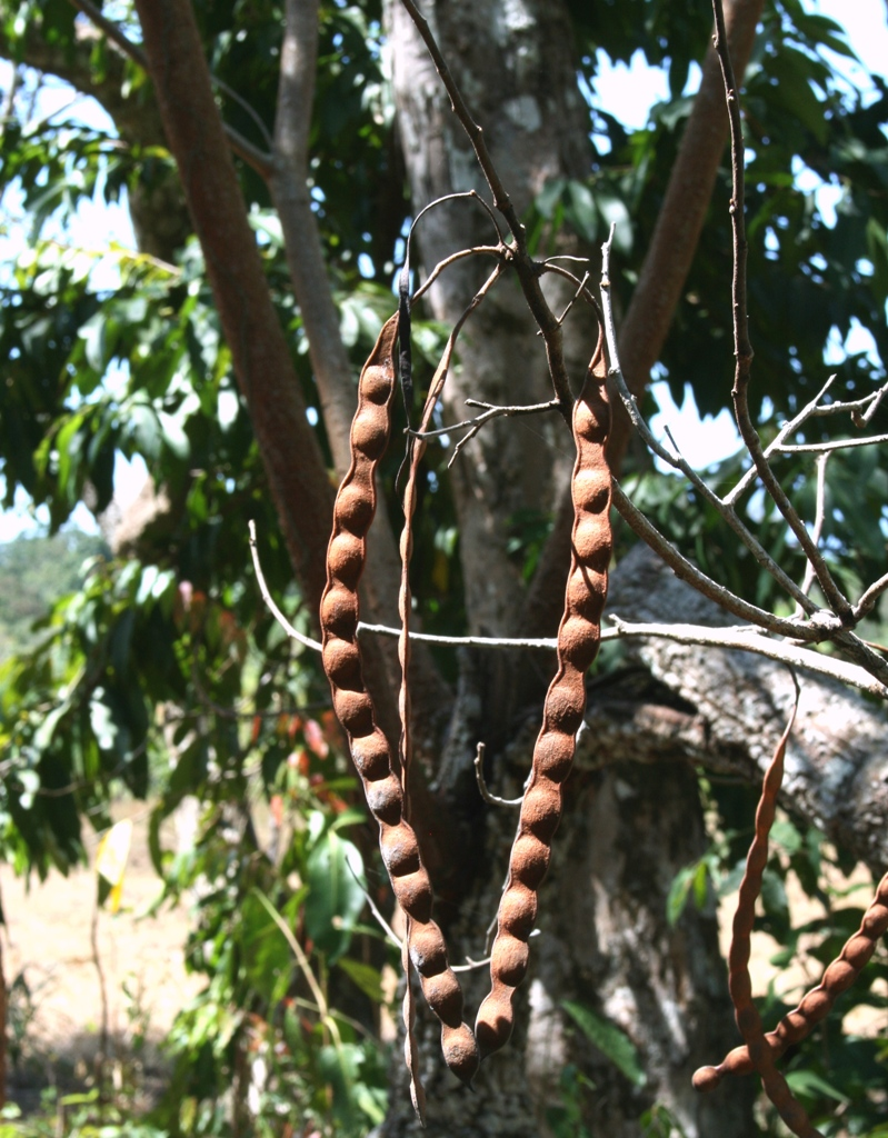 Fruiting Anadenanthera peregrina near Cacuri, Rio Ventuari, Venezuela